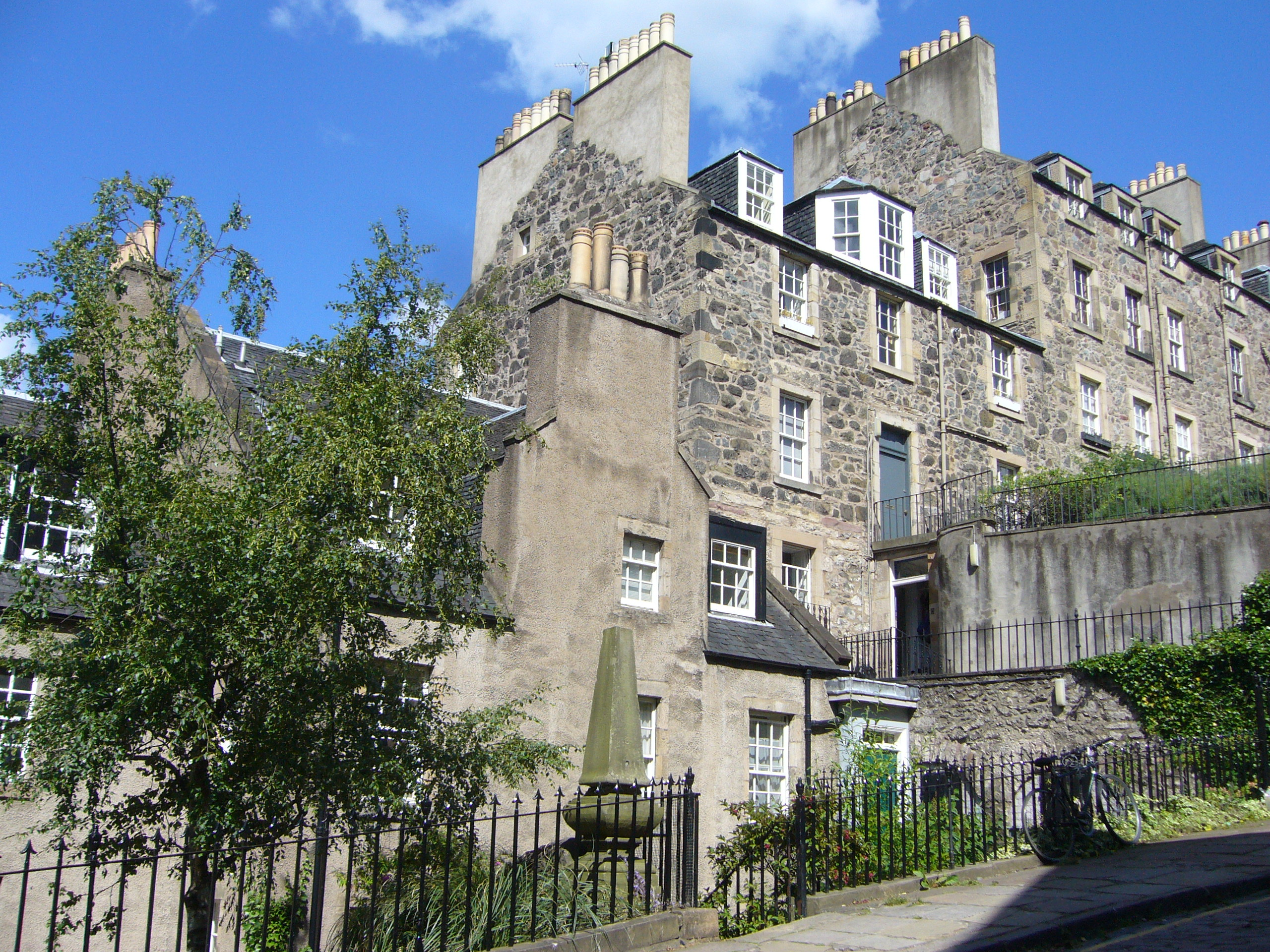 One of the houses pictured was where Agnes Maclehose, "Clarinda", resided latterly, after her liaison with Burns.